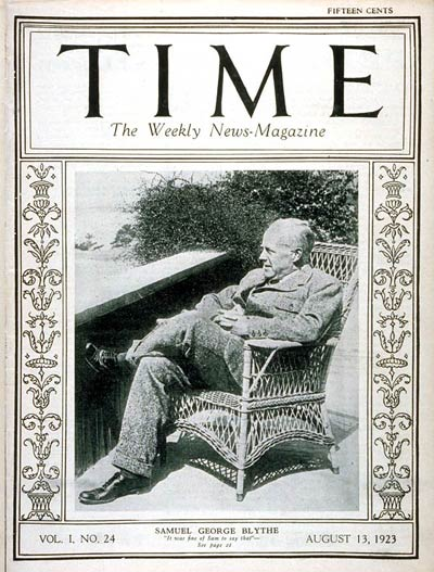 Time Magazine Cover Featuring Samuel George Blythe (13 Aug 1923)